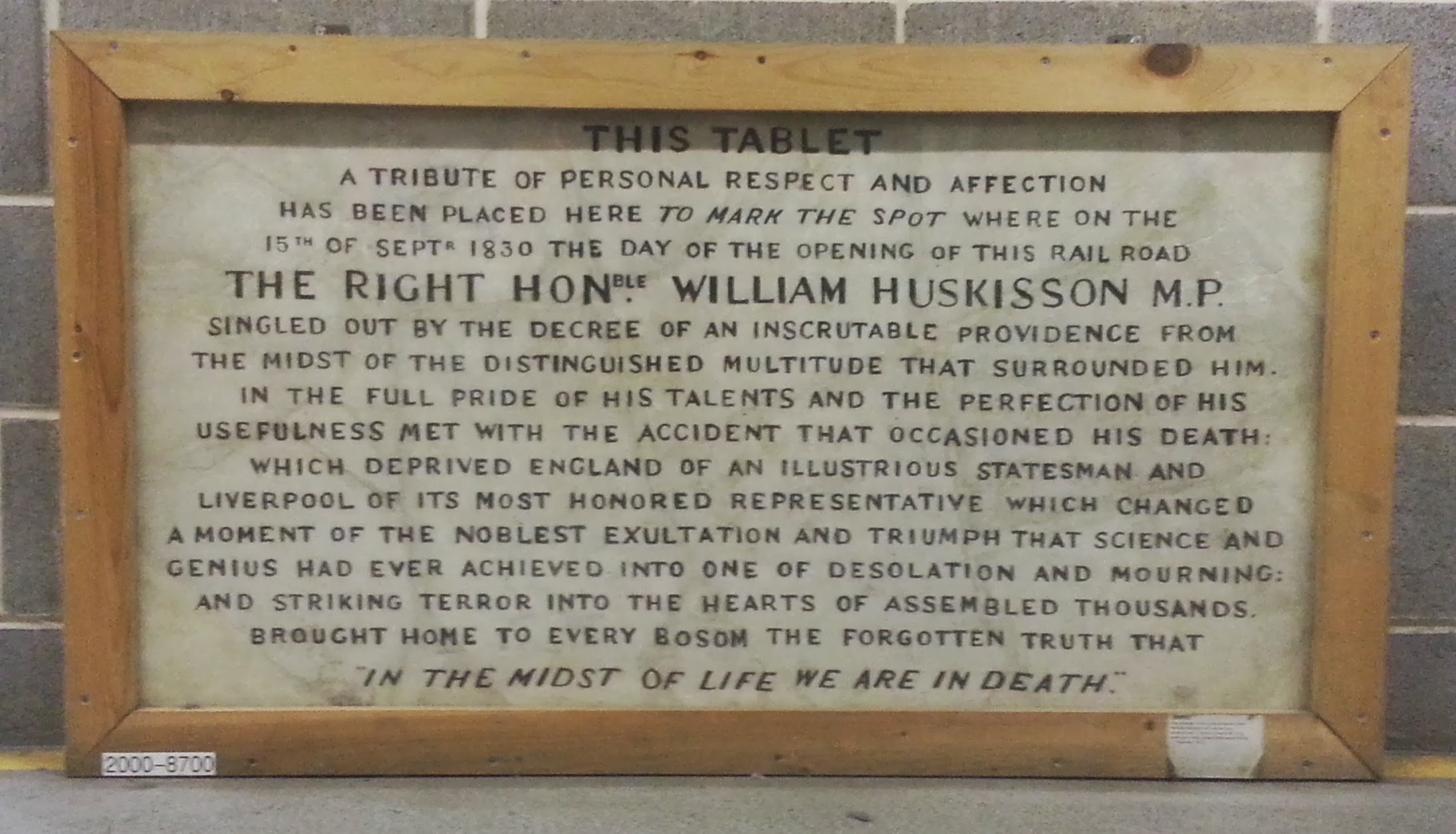 Original memorial tablet from the William Huskisson Memorial, Parkside, now in the National Railway Museum, York